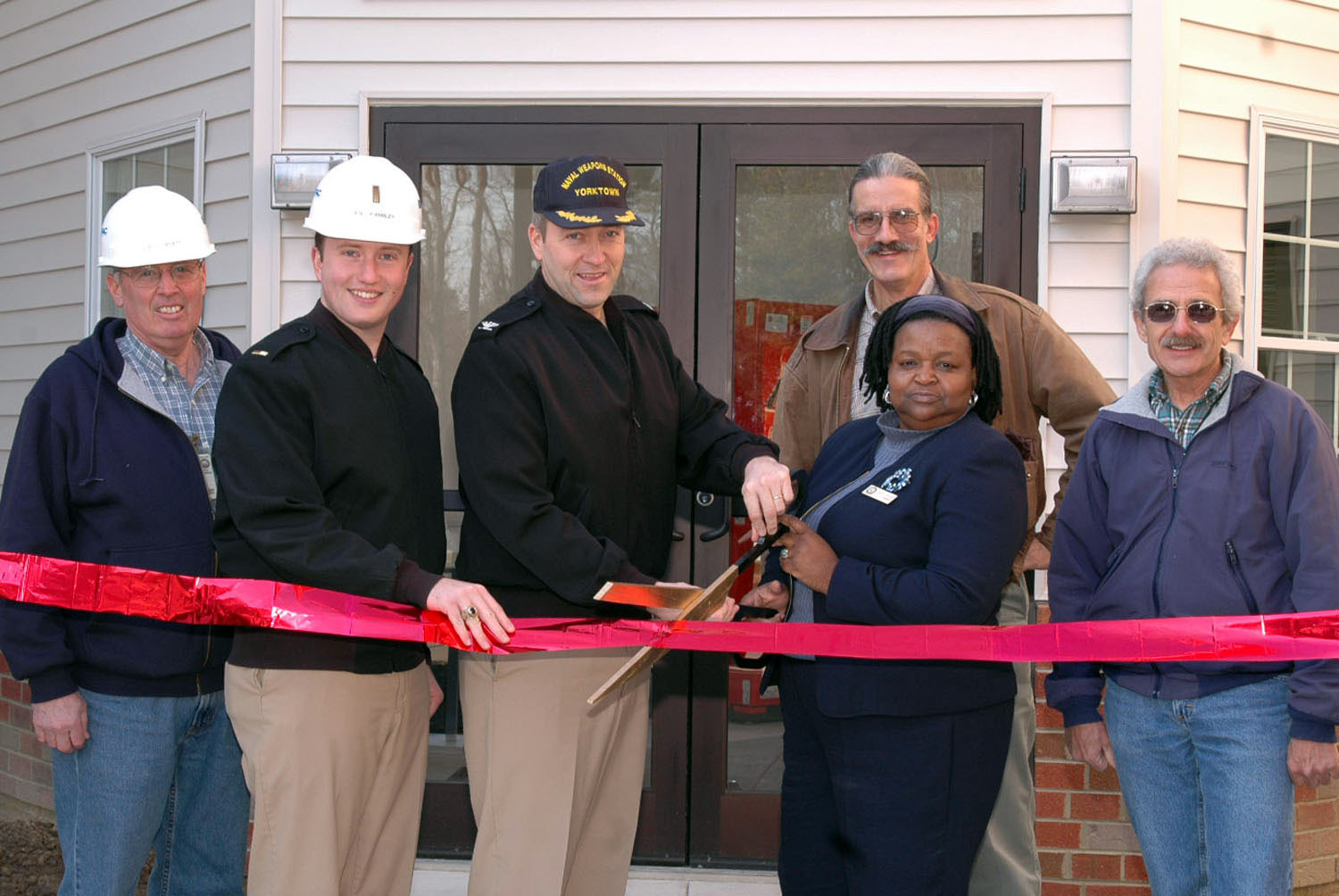 Yorktown, Va. (Jan. 24, 2007) - Naval Weapons Station Yorktown's Fleet and Family Support Center (FFSC) held a ribbon-cutting ceremony, in honor of the opening of their new facility. The ribbon was cut by Commanding officer of Naval Weapons Station Yorktown, Capt. Jerry O'Regan, Eddy Triplett, engineering technician, Ens. James Shambley, project engineer, Damon Lane, site manager, Linda Hough, installation program director, and Bill Greenman, facility maintenance specialist. FFSC Yorktown relocated to a larger building to better serve Sailors and their families on the Peninsula. U.S. Navy photo by Mass Communication Specialist Seaman Marissa Kaylor (RELEASED)